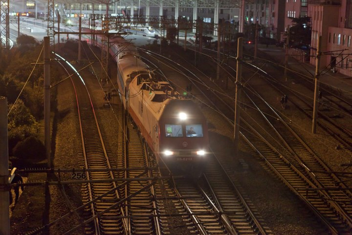 Passenger Train Z96 leaves Shanghai Railway Station to Taiyuan